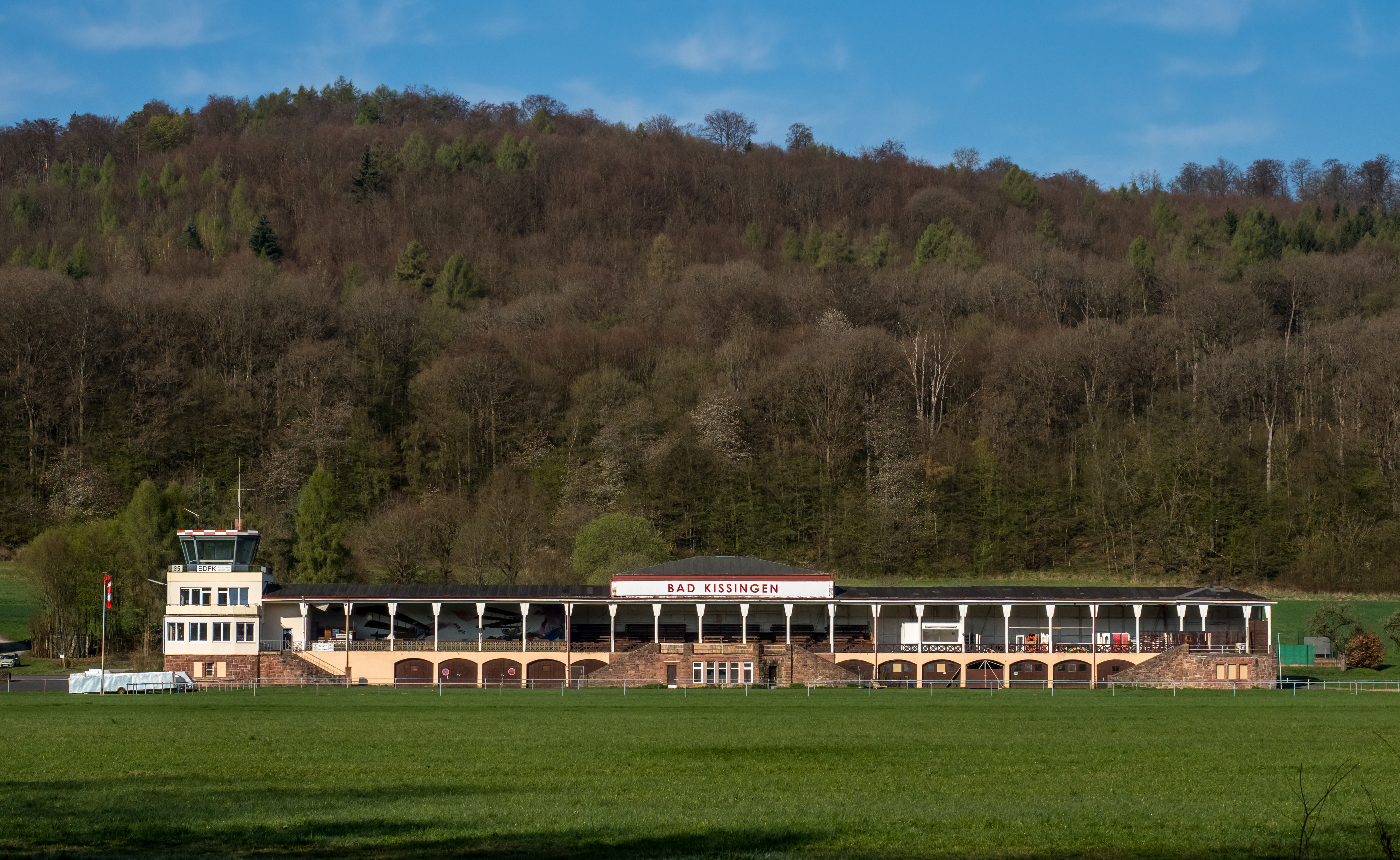 Airfield building in Bad Kissingen